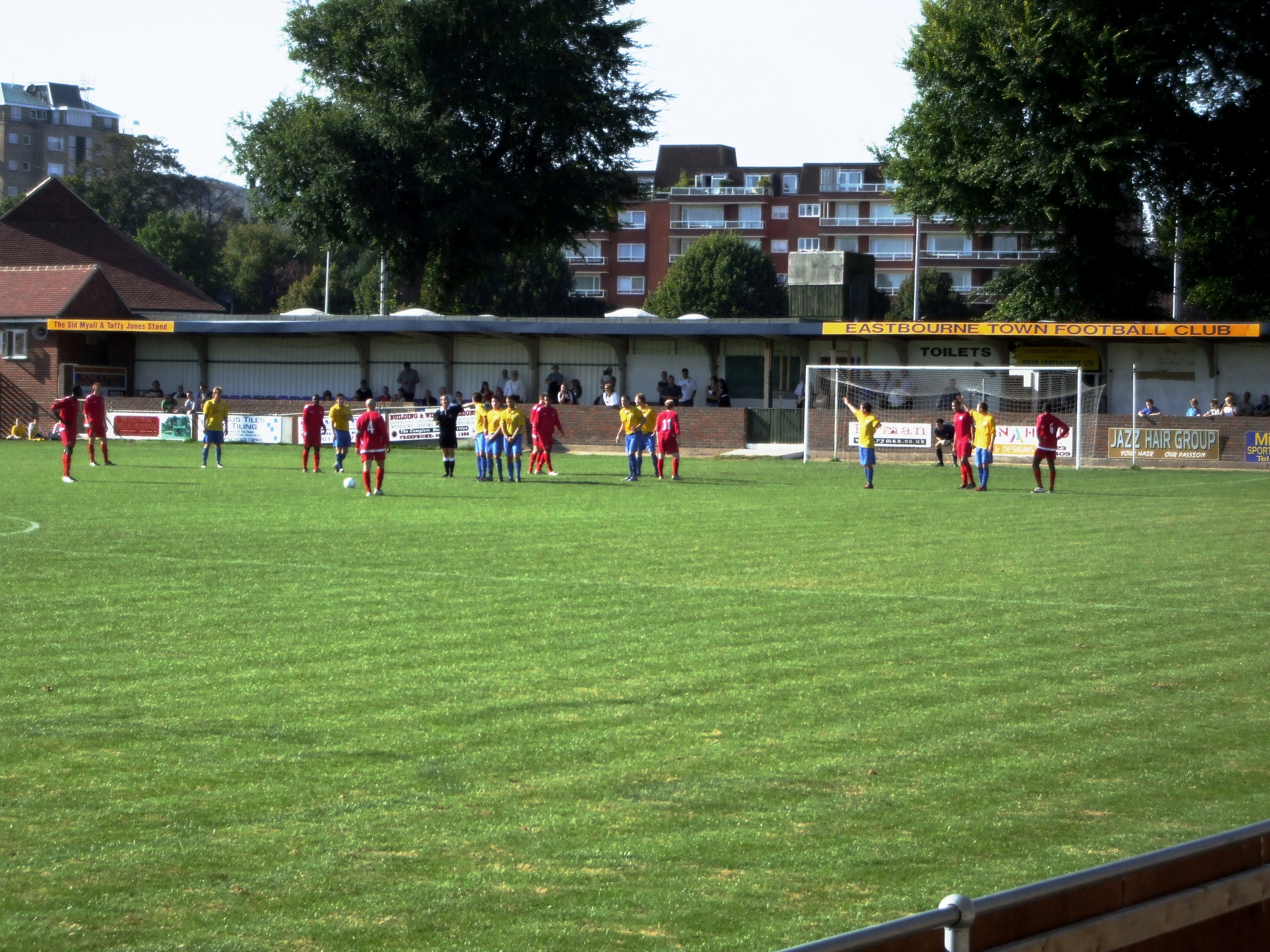 Saffrons, home of Eastbourne Town. 15.09.07.